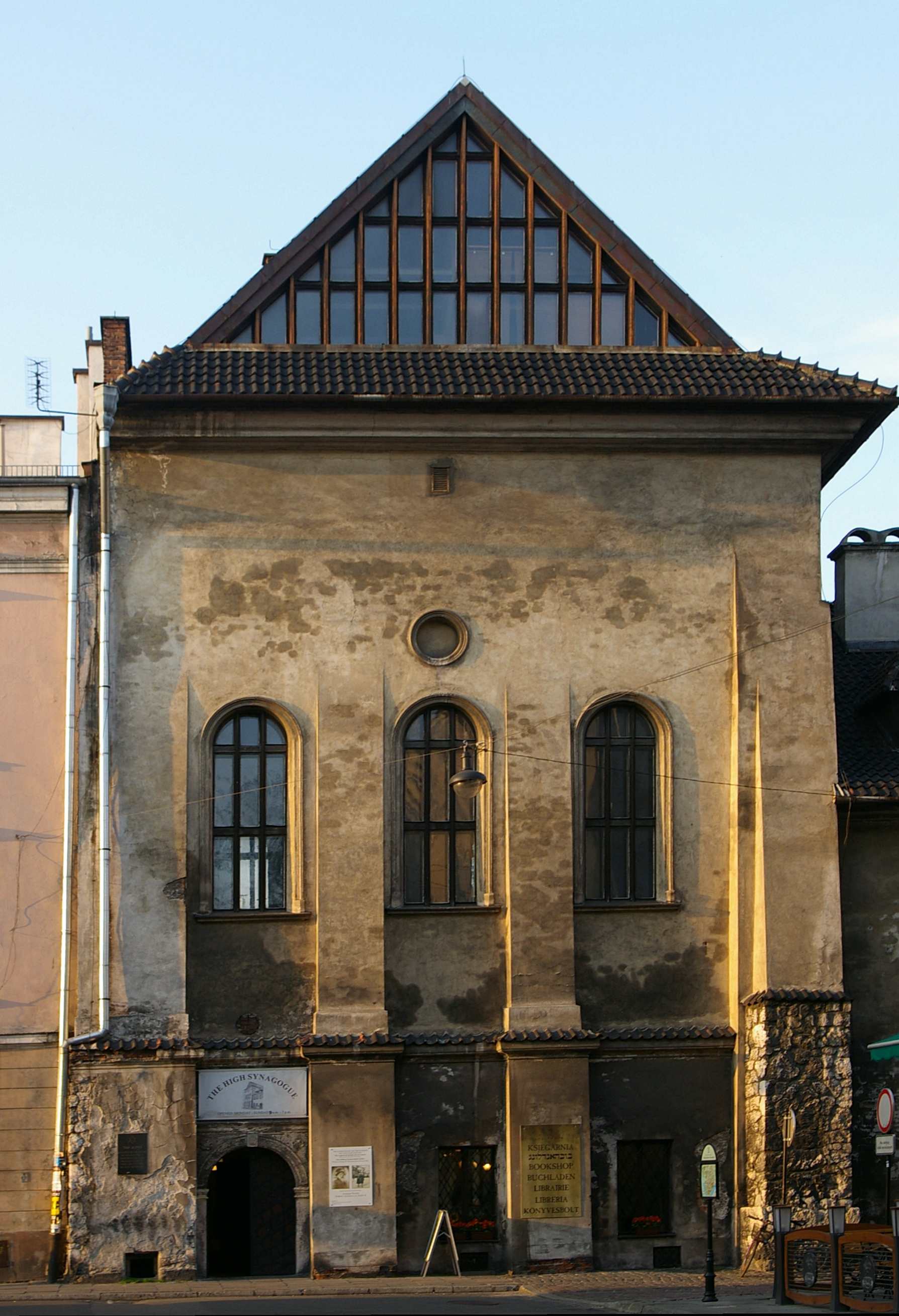 High Synagogue in Kraków